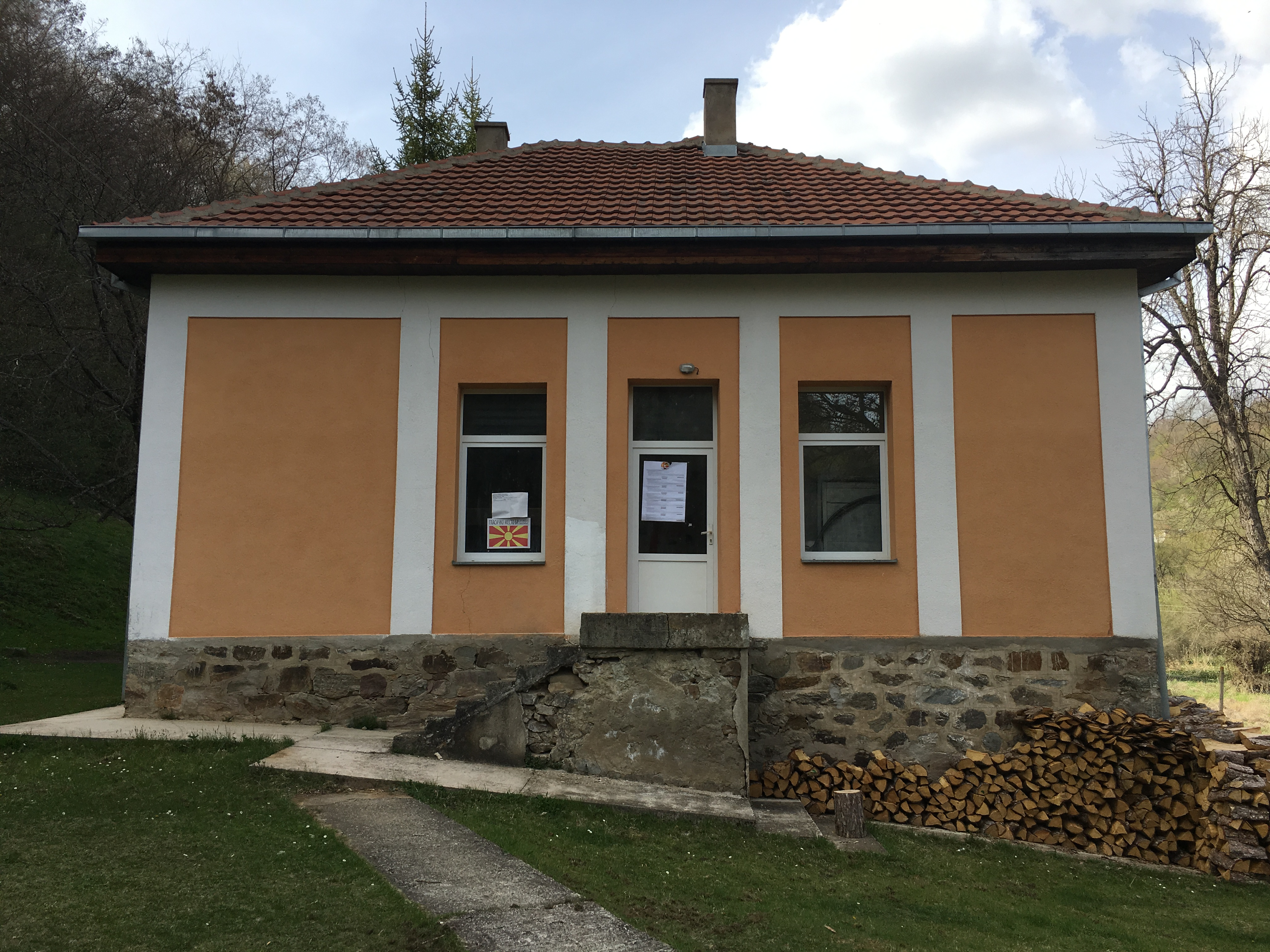 The primary school of the village of Podrži Konj